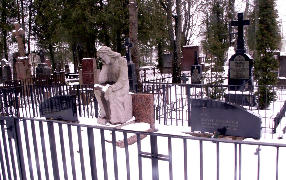 Graves of Šalkauskiai family